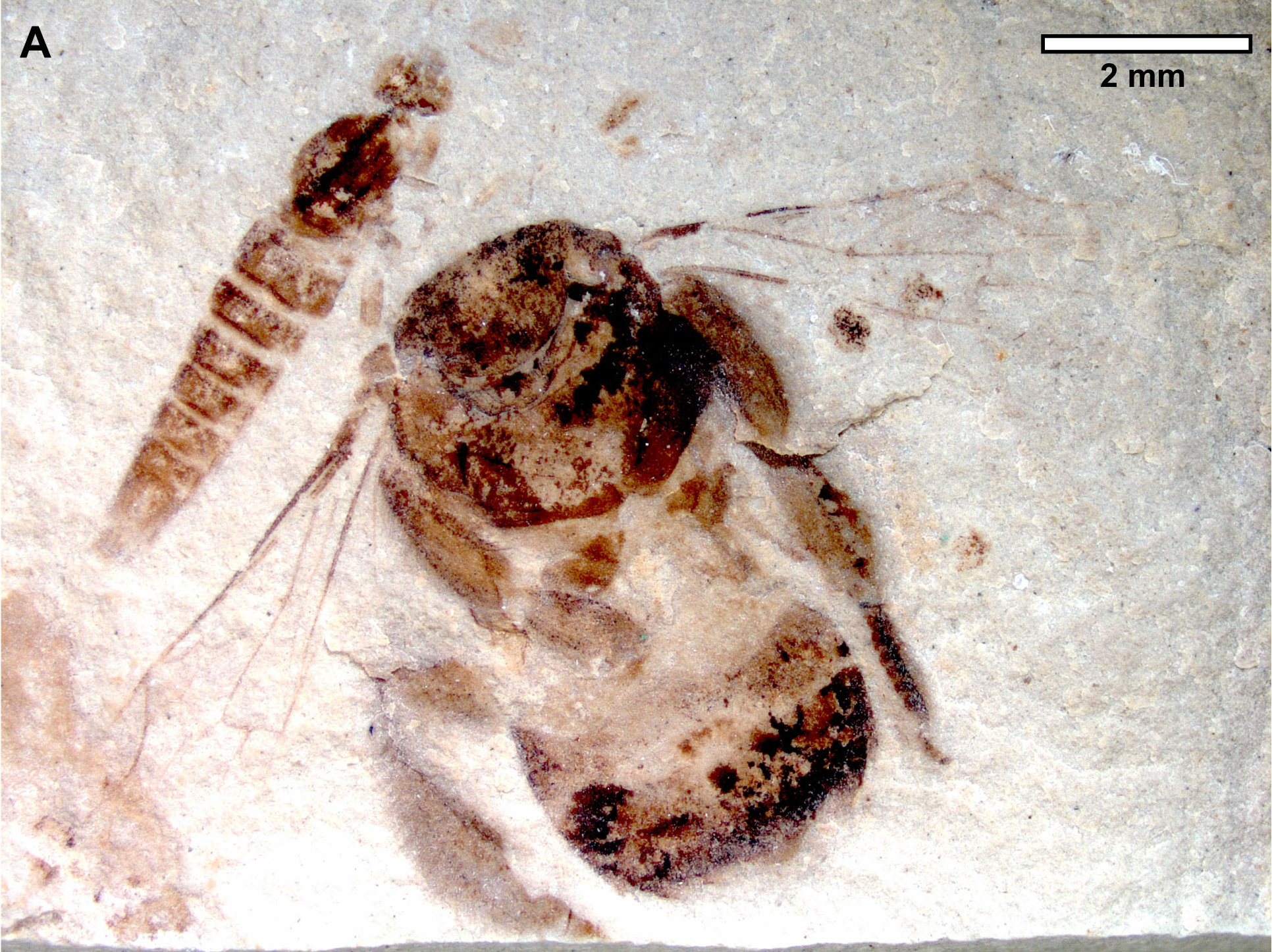 Figure 3. Euglossopteryx biesmeijeri gen. nov sp. nov. (A) Dorsal view